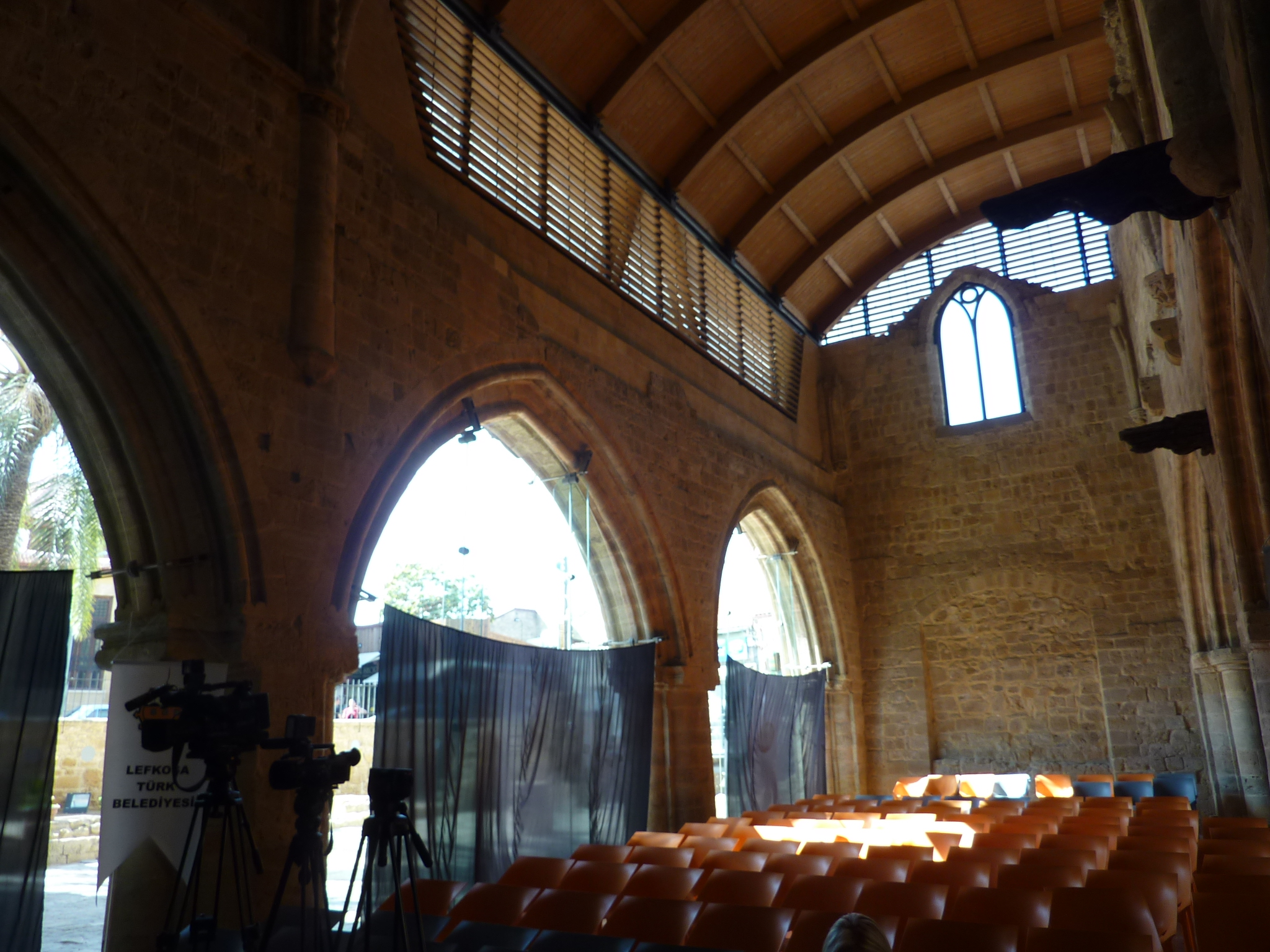 Bedestan (St Nicholas of the English Church), Nicosia